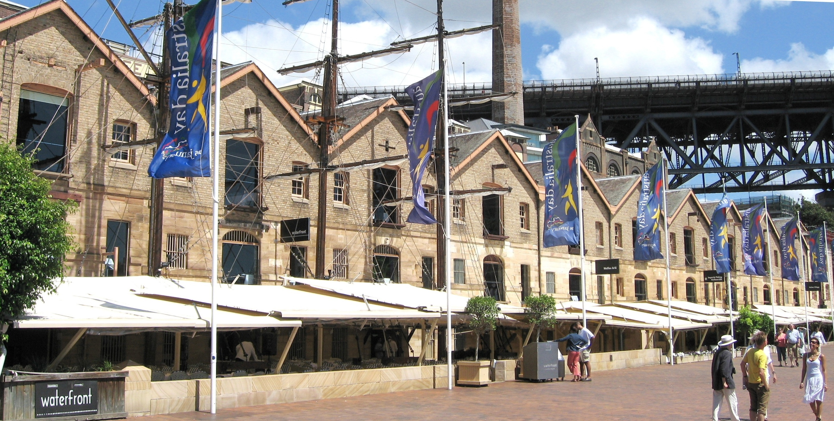 Buildings on Campbells Cove, The Rocks, Sydney, Australia.